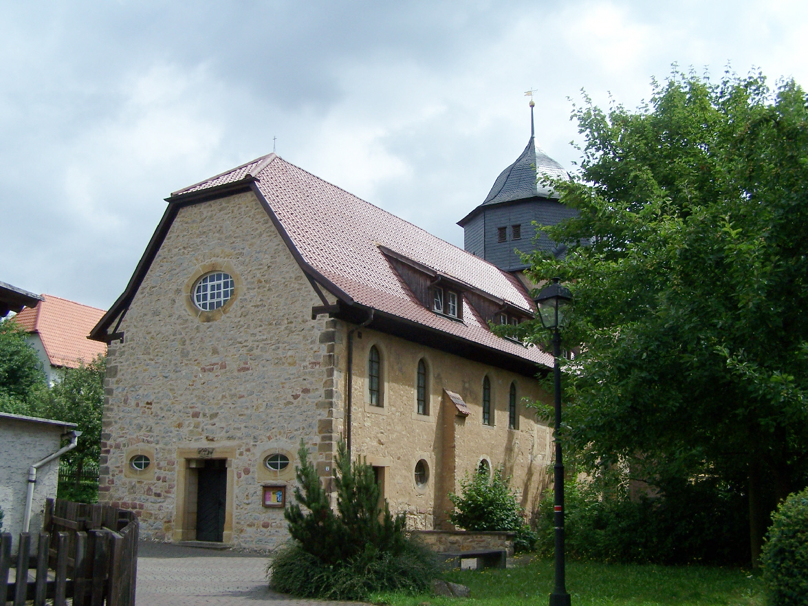 The church St. Margareten